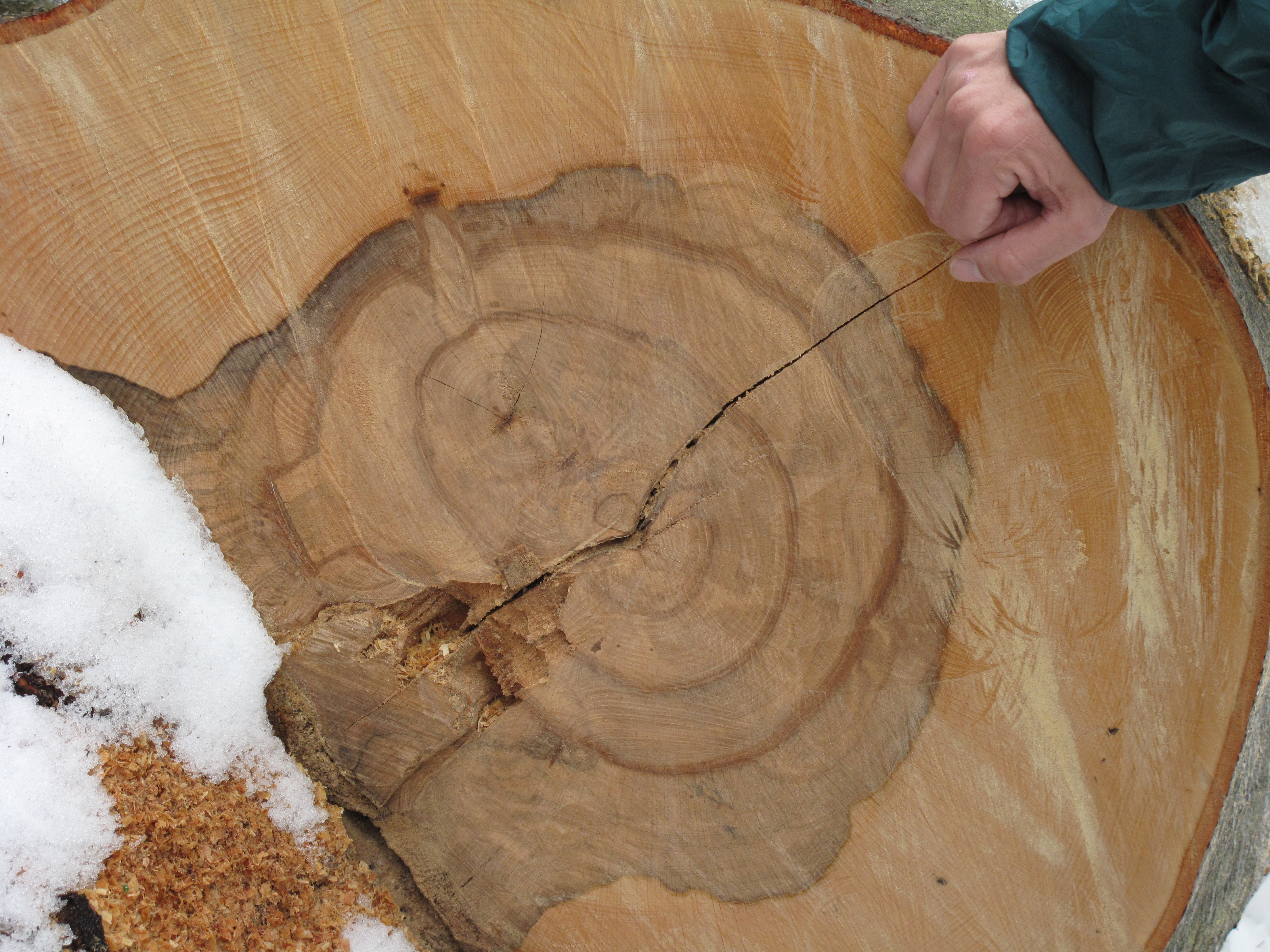 Beech growth rings in Hornopožárský Forest, Czech Republic.